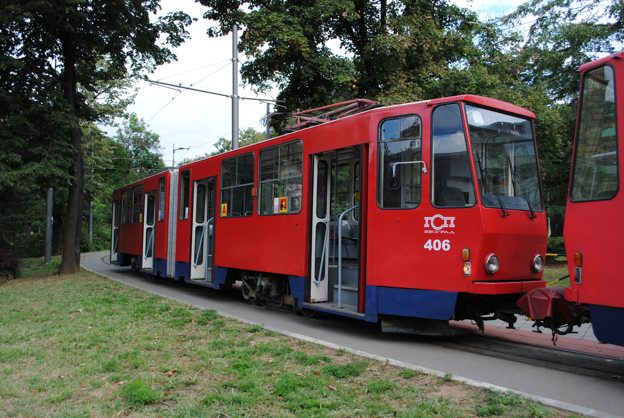 Last ČKD KT4 ever produce in the World